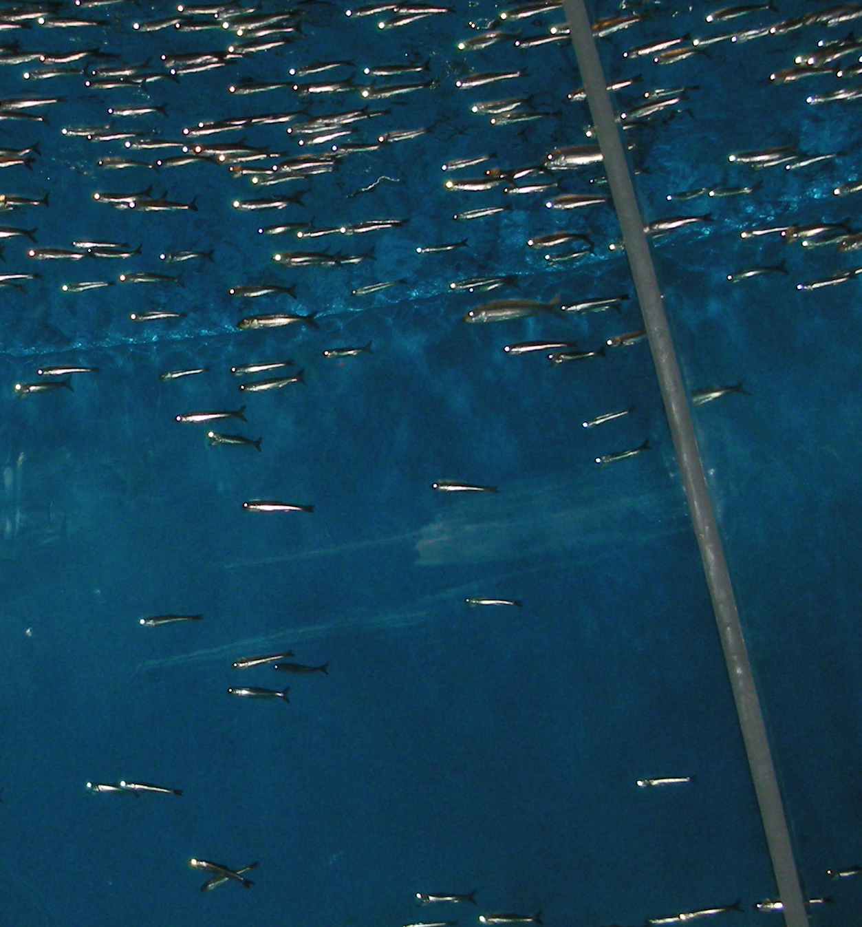 Anchovies at the Mnoterey Bay Aquarium